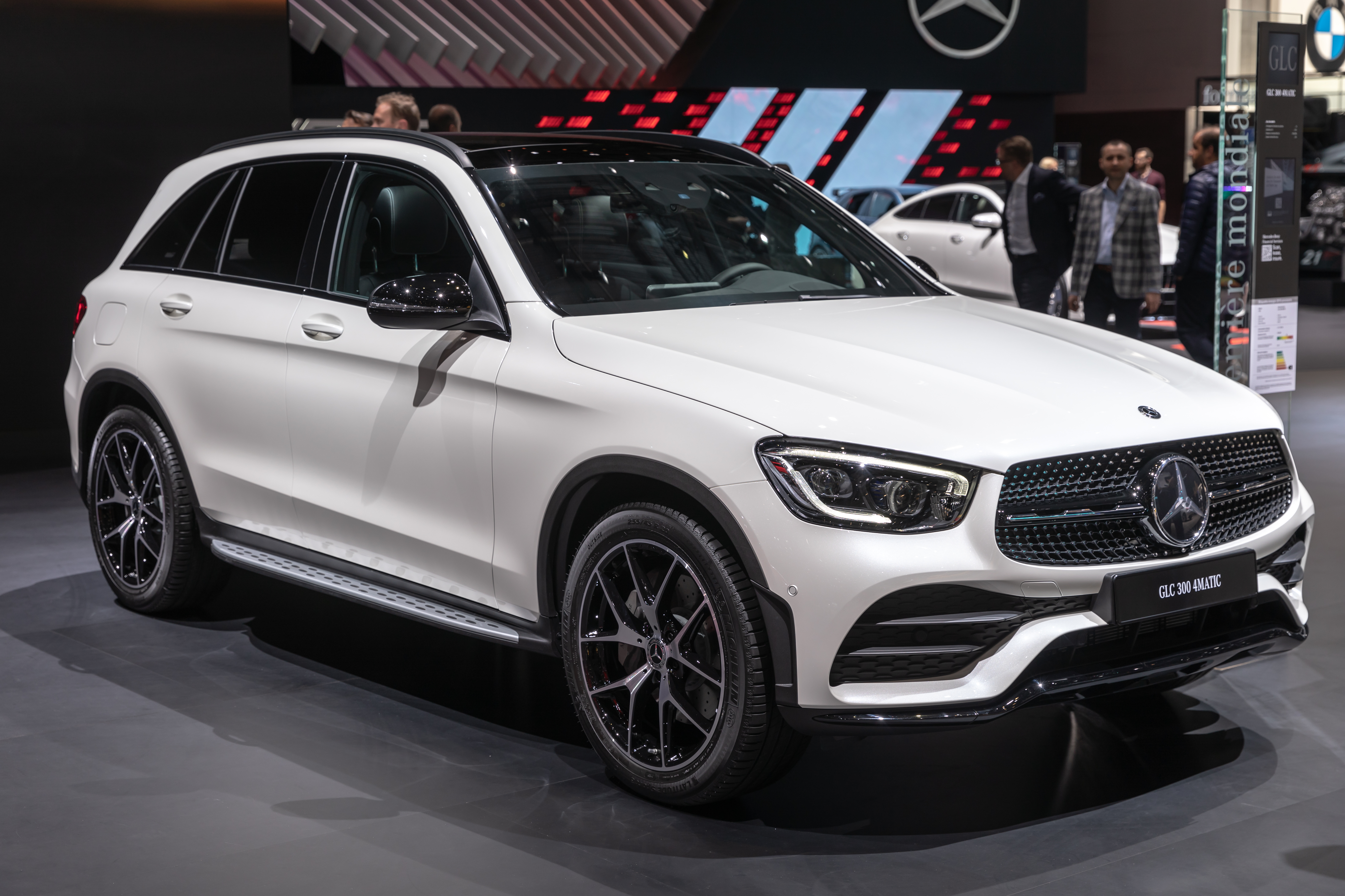 Geneva International Motor Show 2019, Le Grand-Saconnex